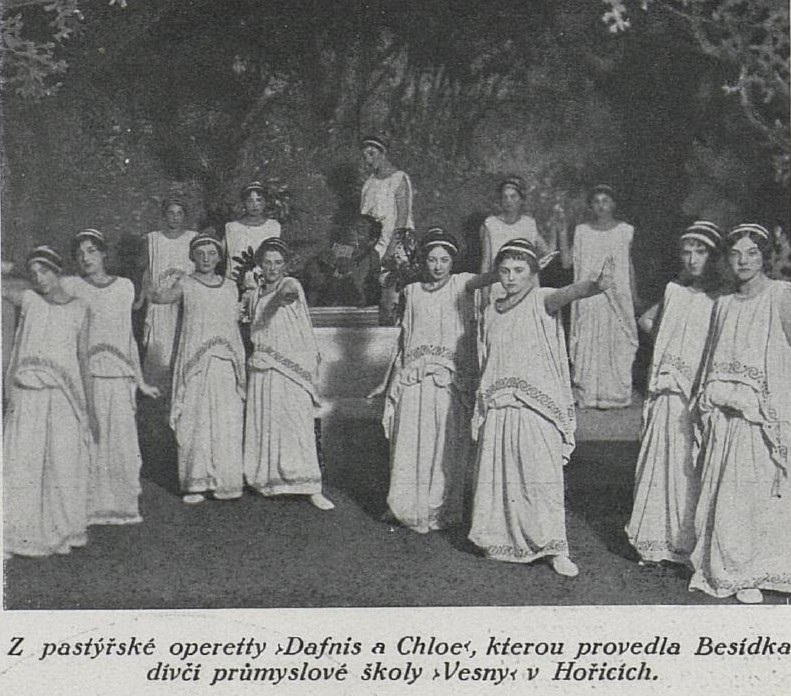 Scene from a production by the Girl's Industrial School 'Vesna' in Hořice of Offenbach's Daphnis et Chloé, 1915